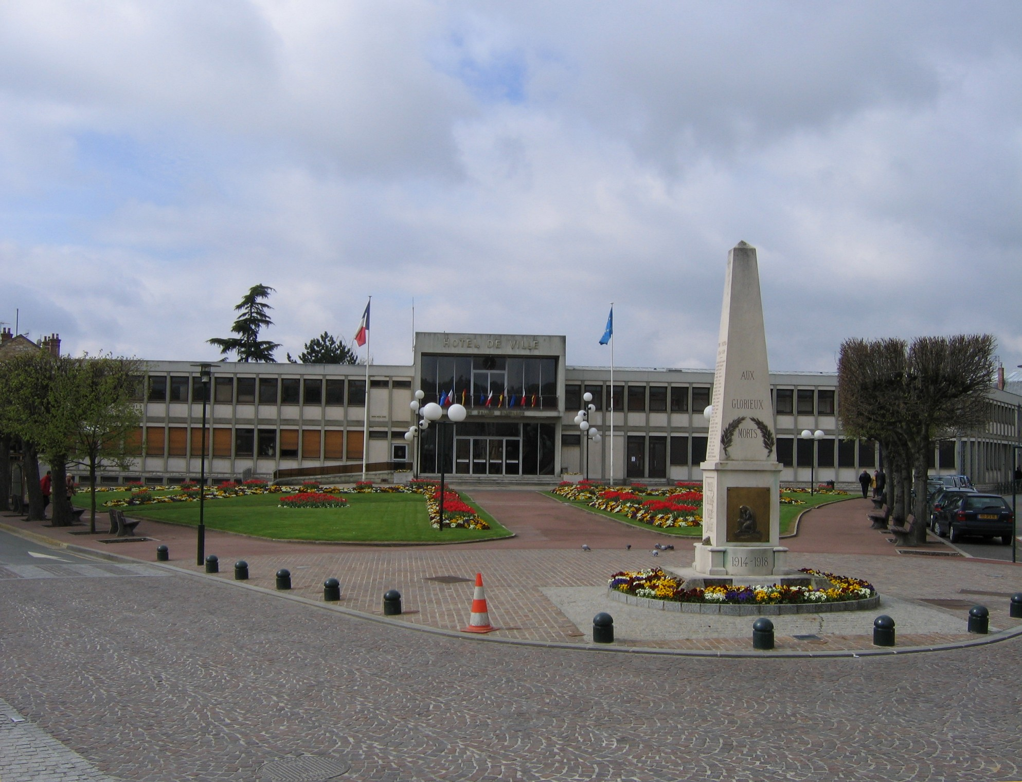 Soisy-sous-Montmorency, France, Town Hall